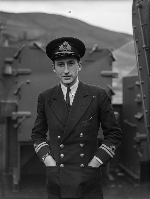 Portraits of Submarine Captains and Their First Lieutenants. 6 February 1943, Holy Loch. Lieut D R O Mott, DSC, RN, Captain of HMS USURPER.